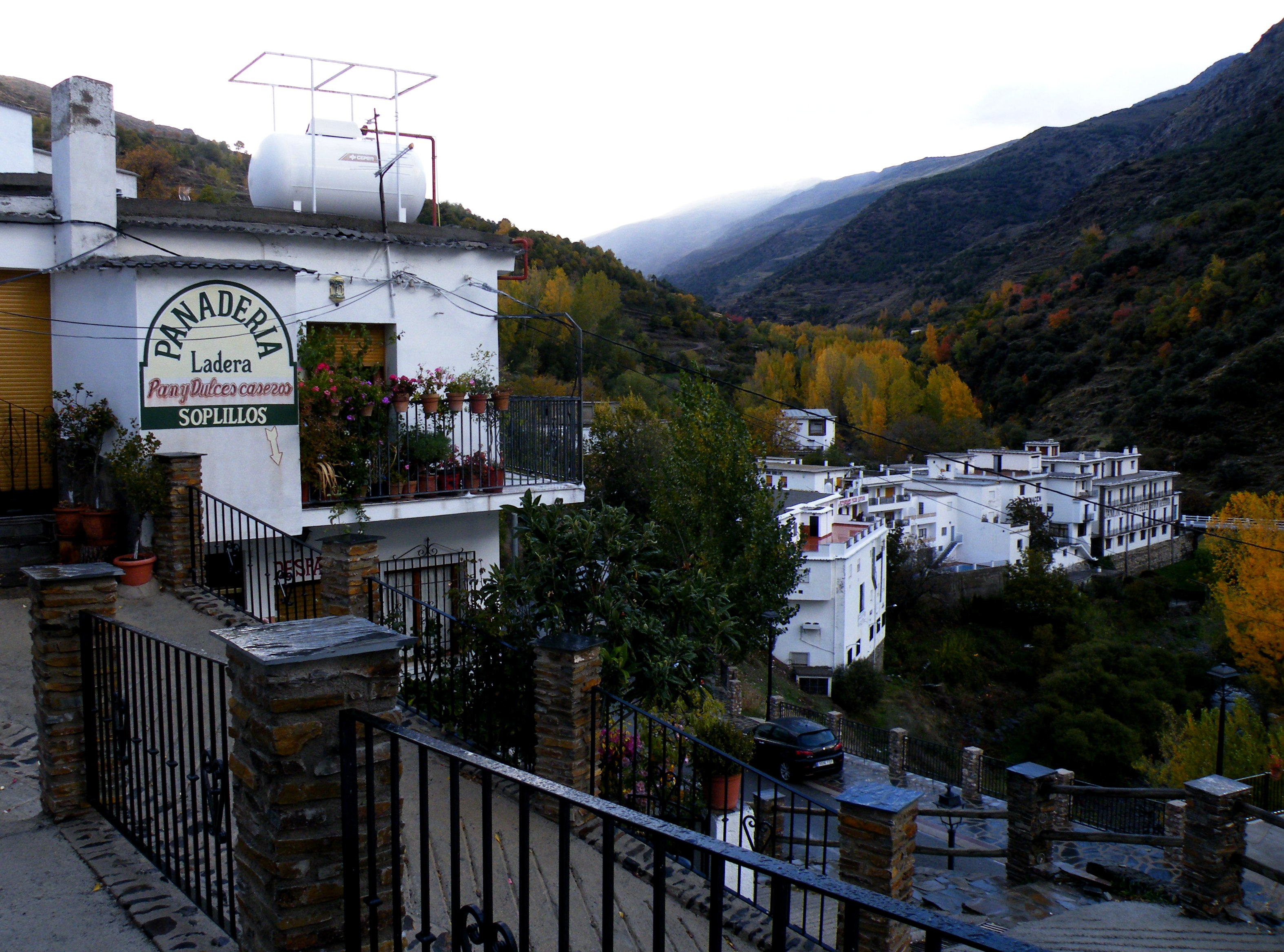 Terrace housing, Trevelez, Spain.